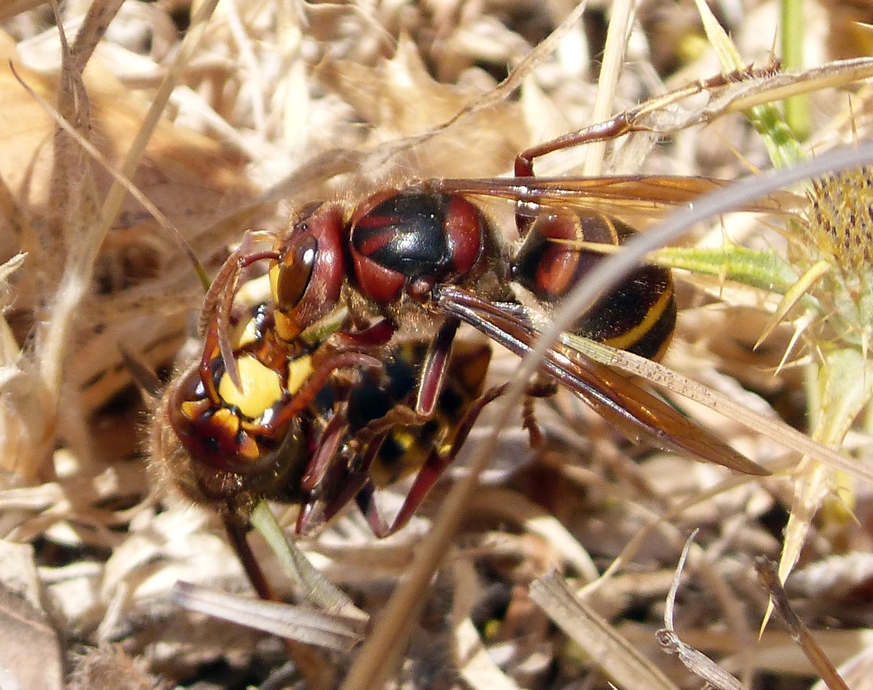 Trophallaxis ;- exchange of regurgitated food that occurs between adults and larvae in colonies of social insects